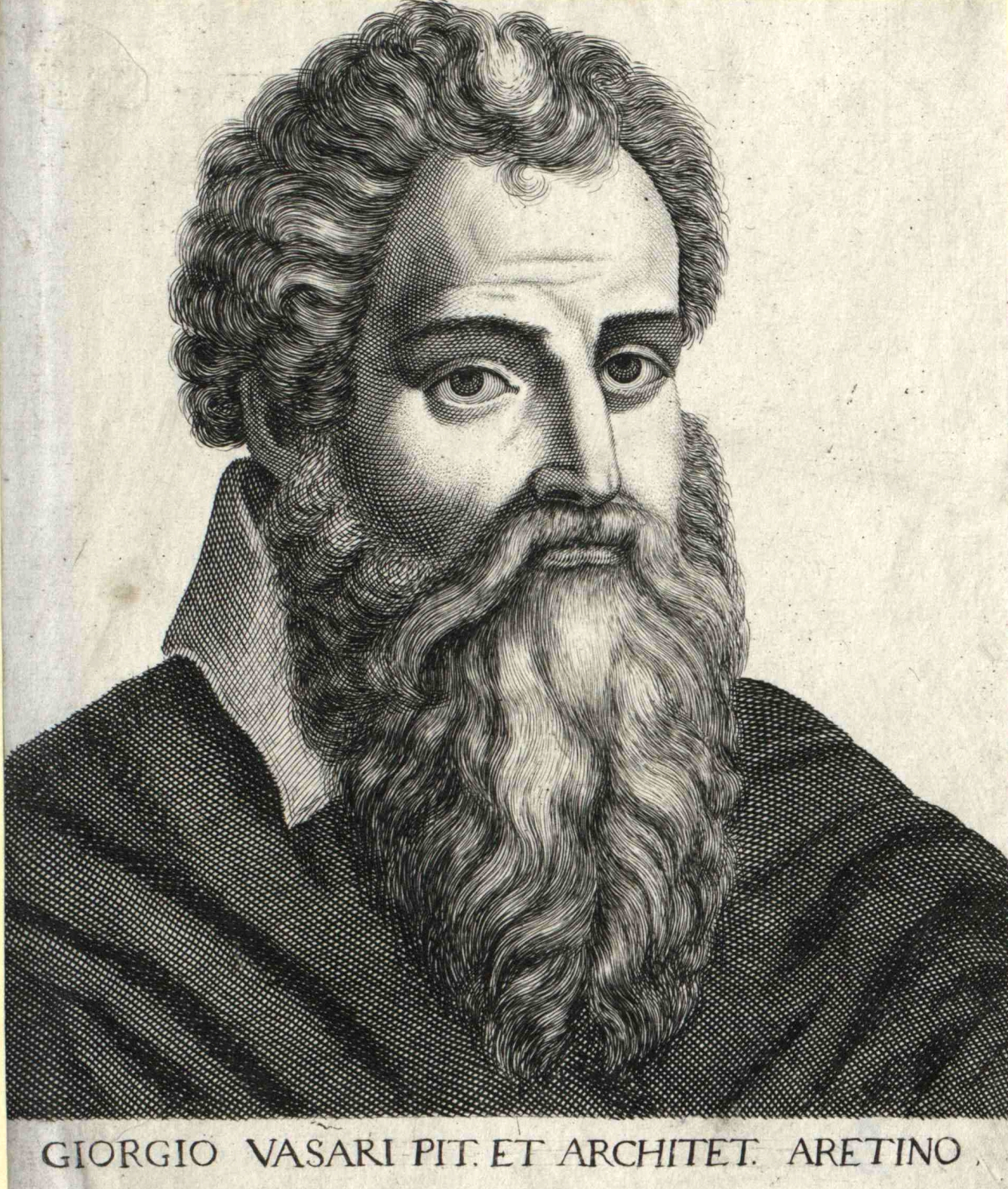 Giorgio Vasari